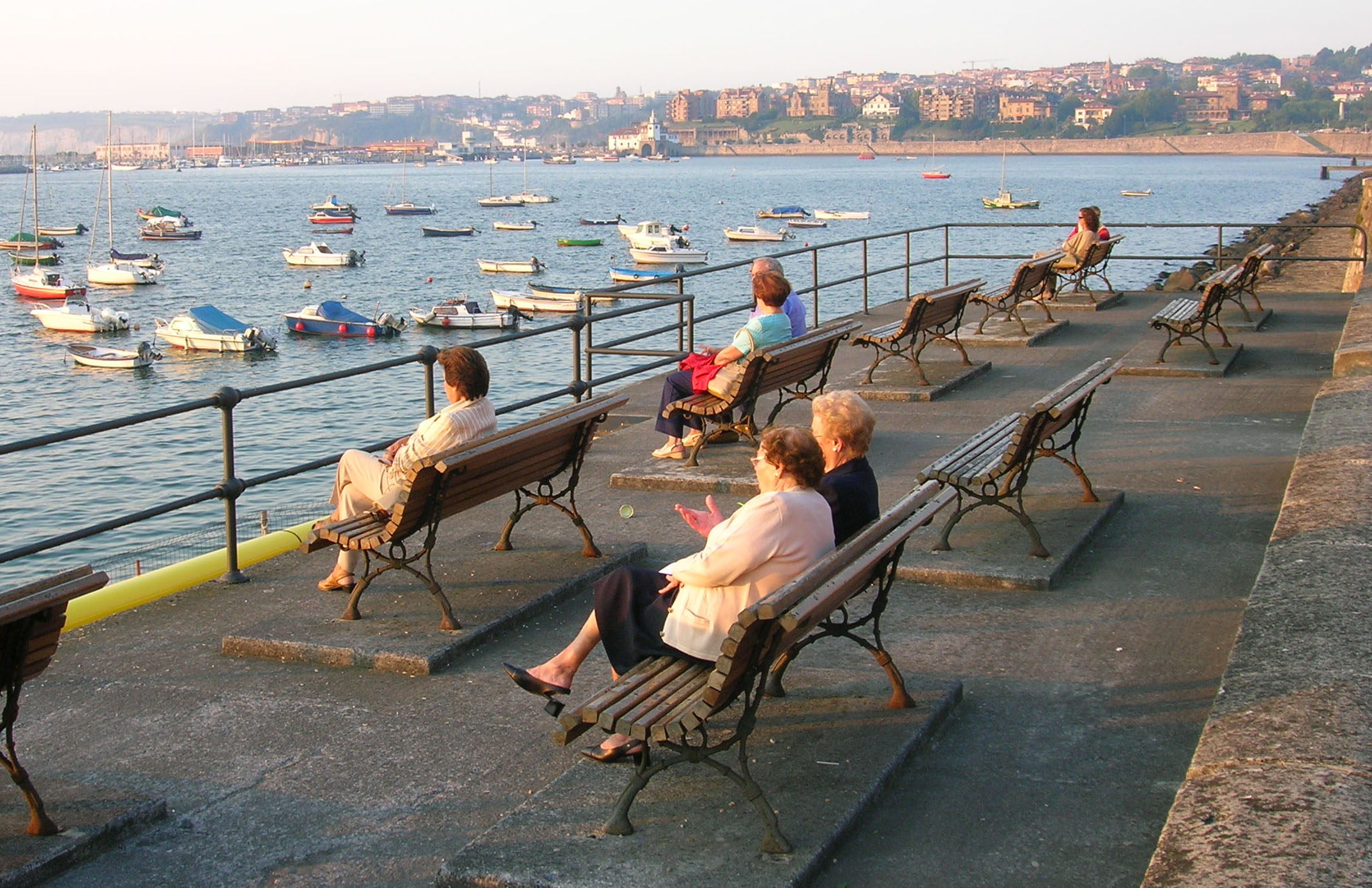 Benches by the Seaside Walk of Areeta/Las Arenas. On the background, Algorta. Getxo, Biscay, Spain.